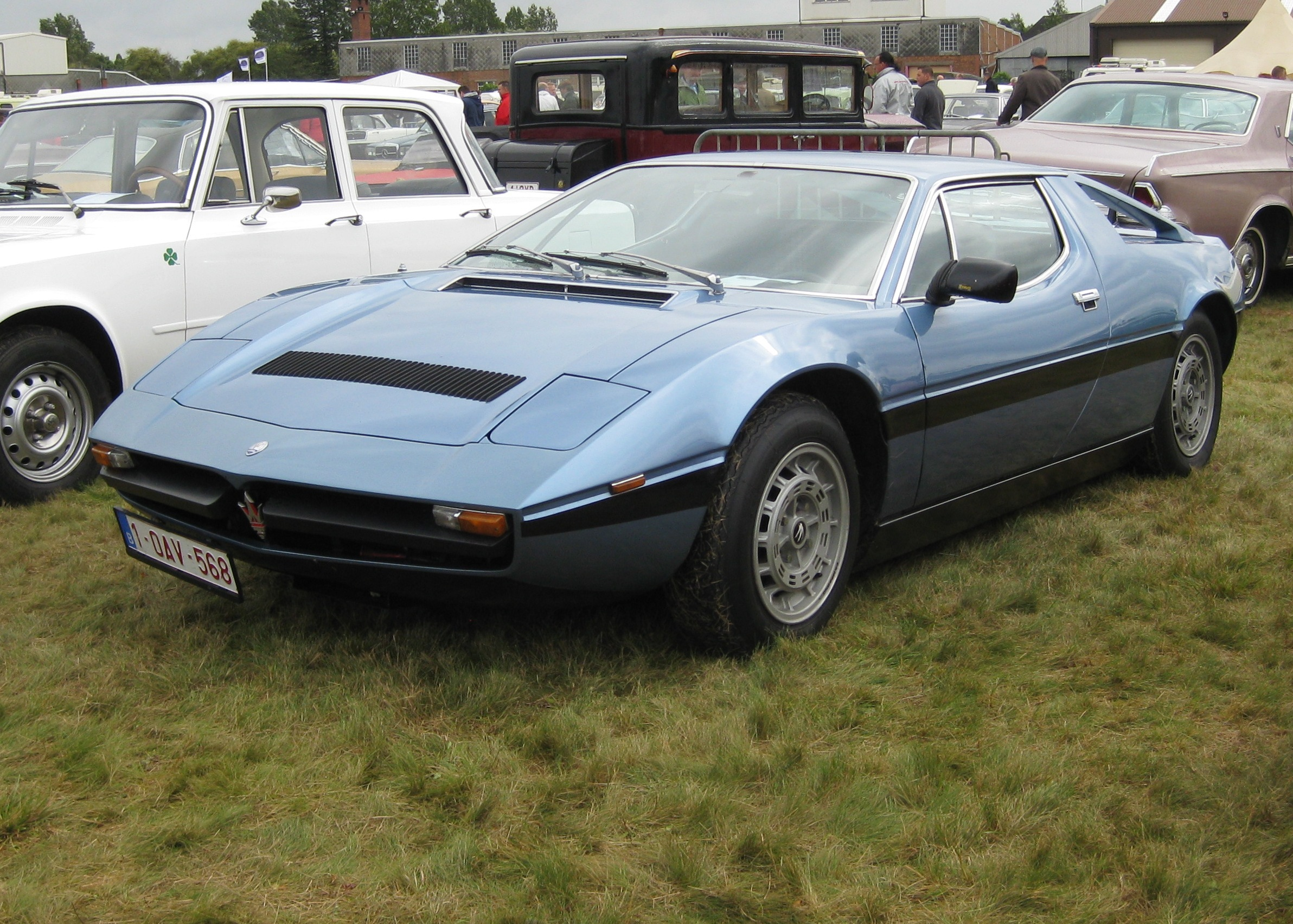 Maserati Merak 2000 GT. This smaller engined Merak was a response to punitive levels of car tax introduced by government - notably in Italy - for cars having engines sizes above 2000 cc